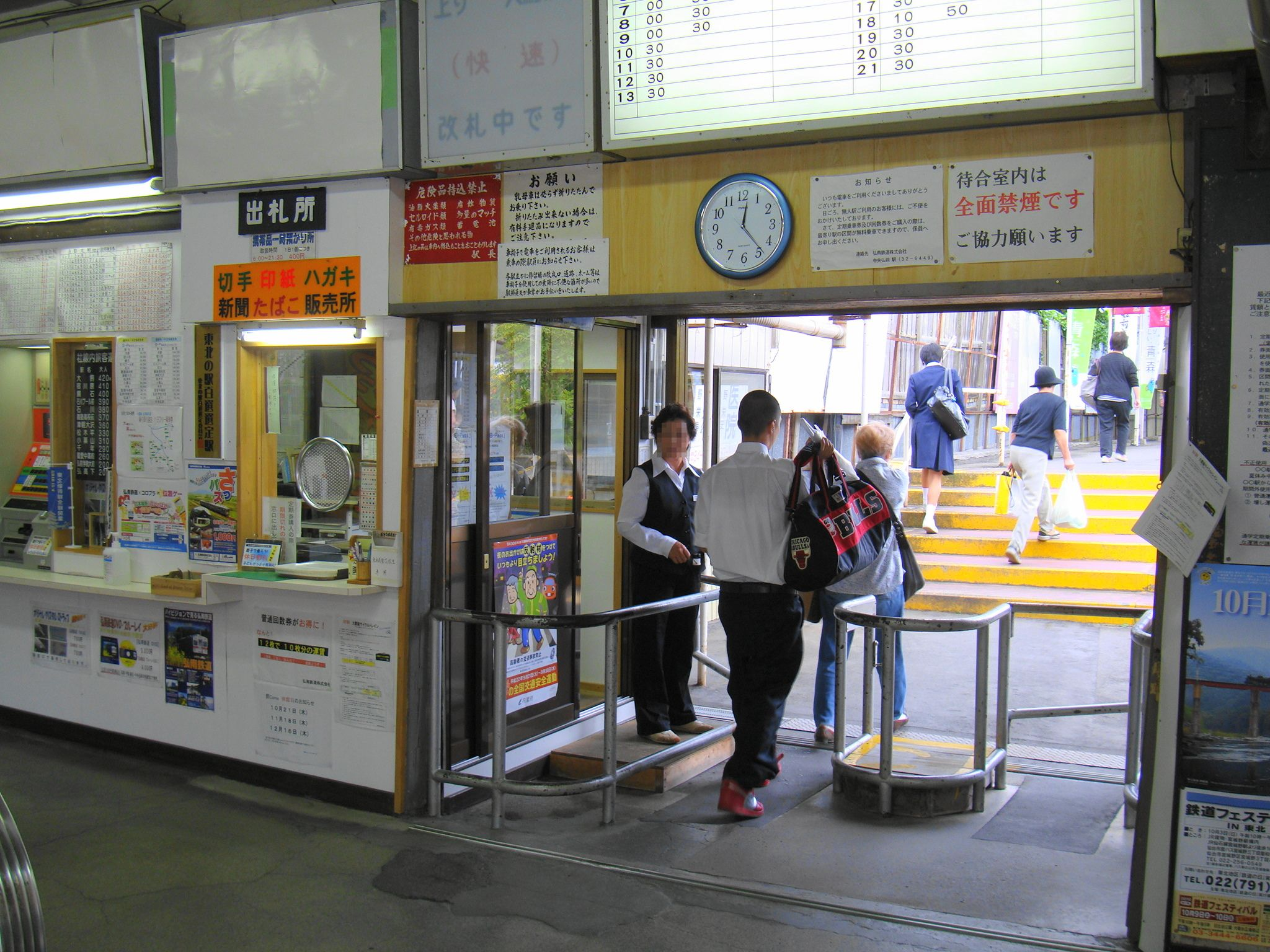 Chūō-Hirosaki Station